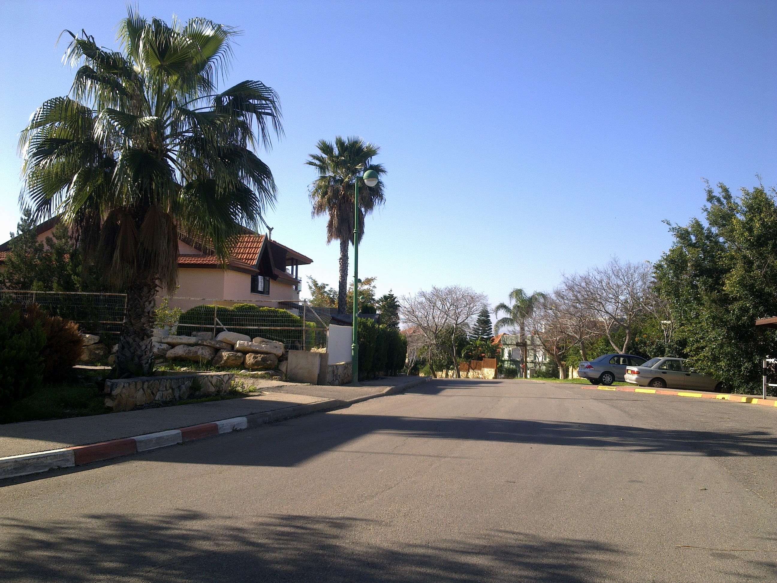 A street in Tal El רחוב ביישוב טל אל